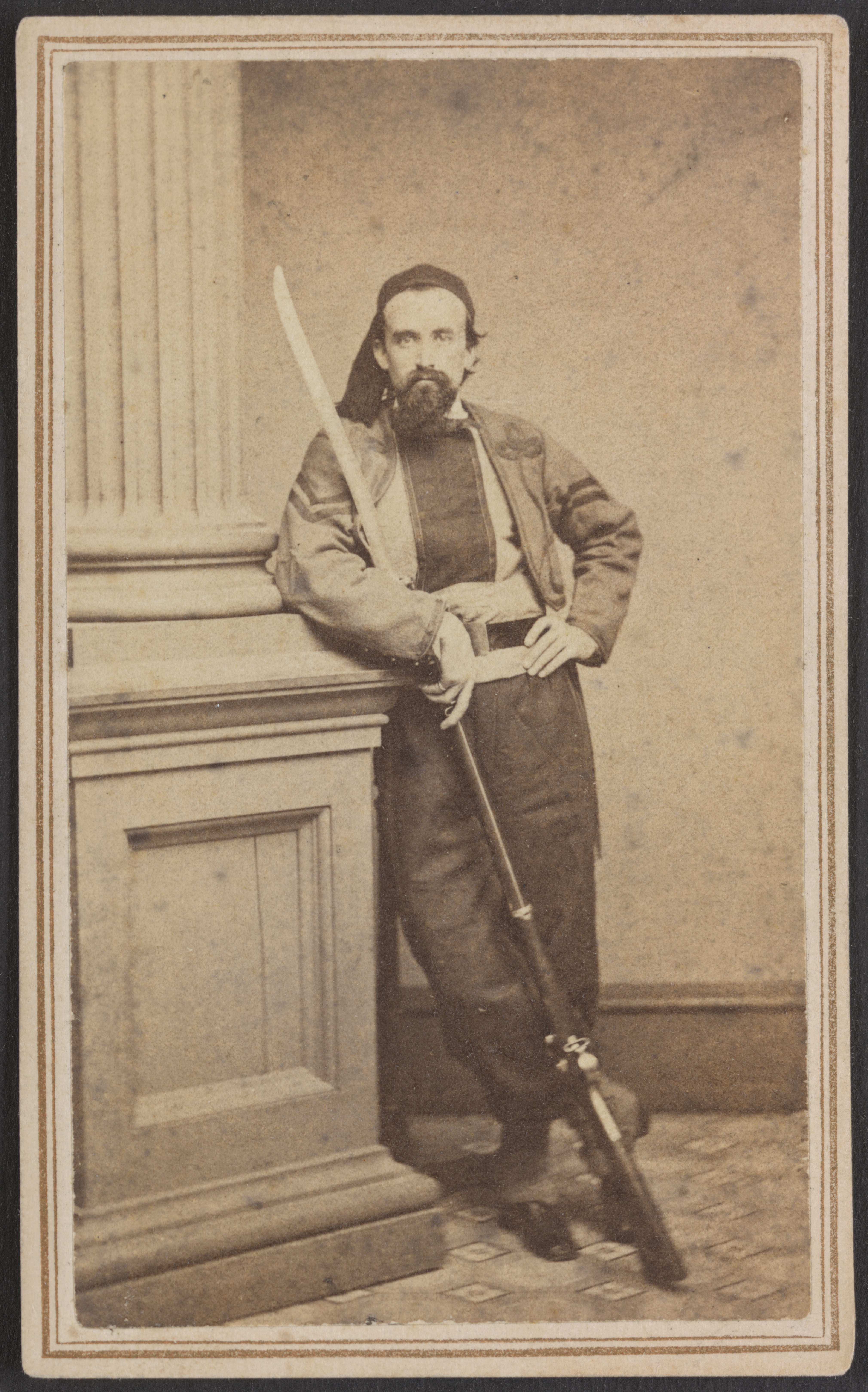 Title: Sergeant Henry G. Lillibridge of Co. H, 10th Rhode Island Infantry Regiment, in zouave uniform with saber bayoneted rifle] / Frank Rowell, photographer, 25 Westminster St., Prov. R.I Abstract/medium: 1 photographic print on carte de visite mount : albumen ; 10.1 x 6.2 cm (mount)